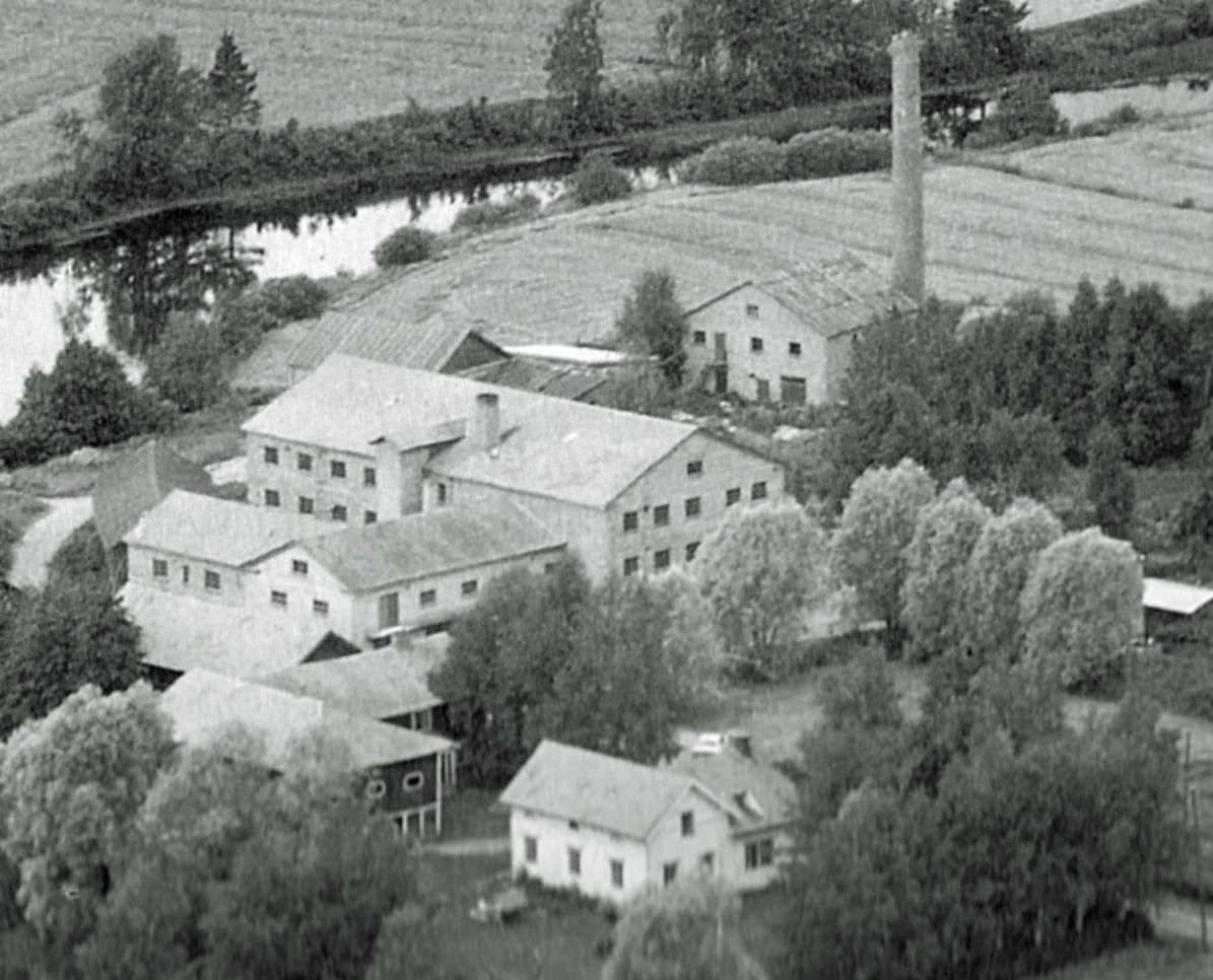 Jokipiin Pellava linen or flax mills in Jokipii, Jalasjärvi, Finland, owned by the Laurila family. Picture taken in early 1960s.